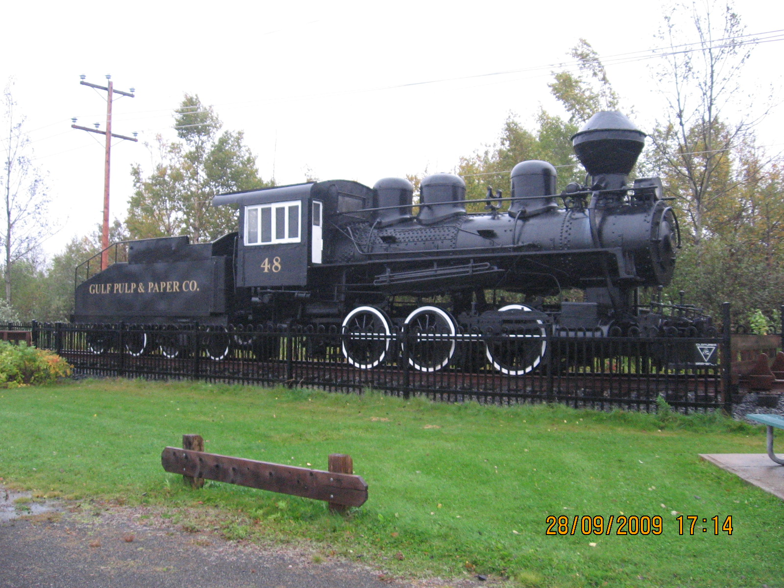 Clarke City Terminal